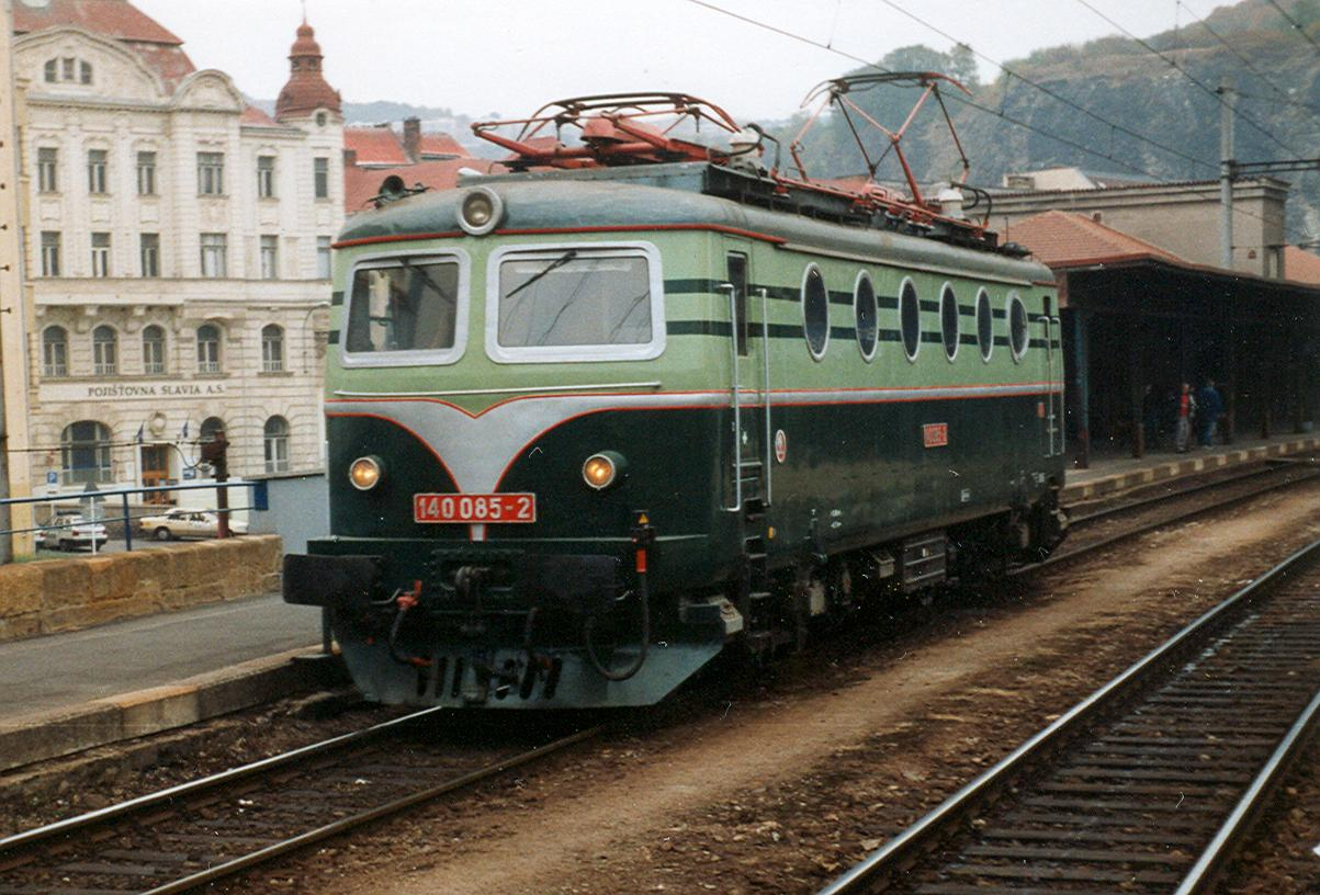 Electric locomotive class 140 of České dráhy at Ústí nad Labem main station